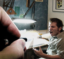 Masse in the summer of 2004